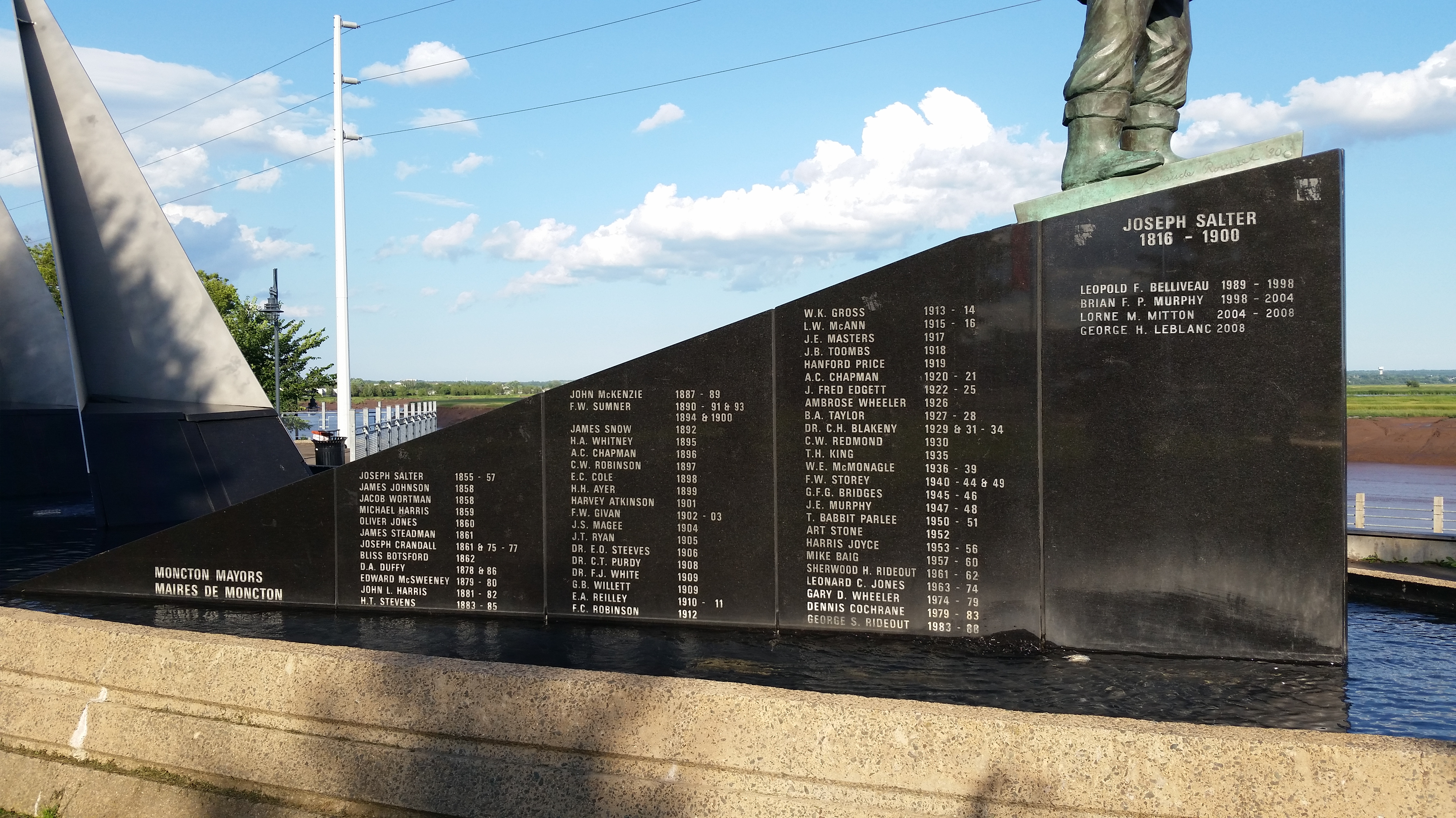 One side of the Joseph Salter monument, showing the list of mayors of Moncton.